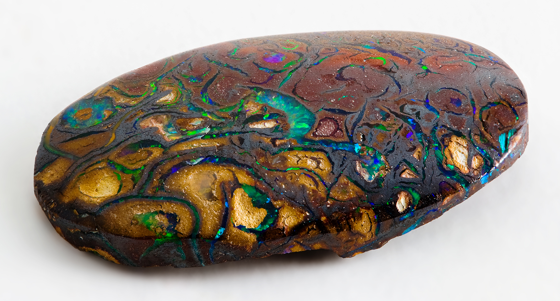 Opal from Yowah, Queensland, Australia Camera data Camera Canon EOS 400D Lens Canon EF 70-200mm f4L w/ 36mm + 24mm + 12mm extension tubes Flash Shoot Through Umbrella Focal length 94 mm Aperture f/11 Exposure time 1/200 s Sensivity ISO 400